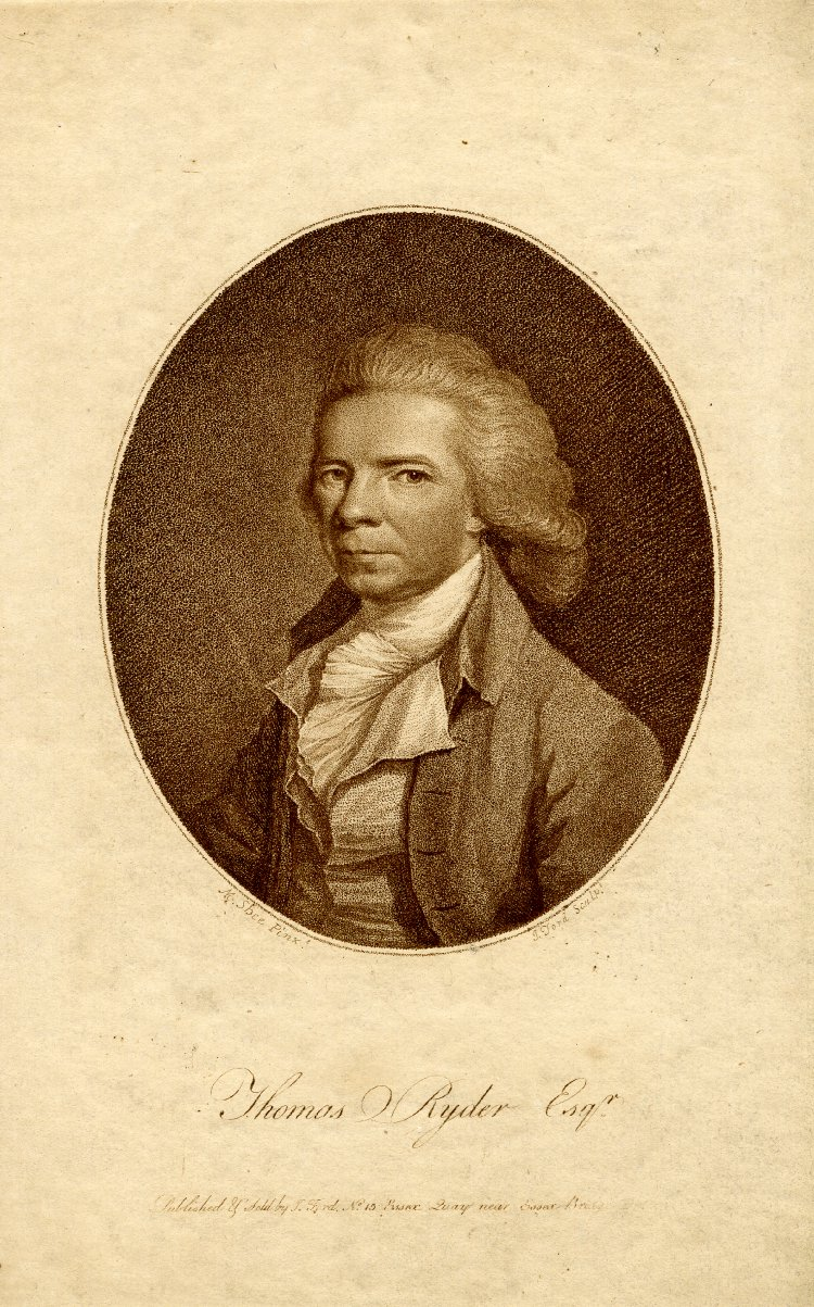 Portrait of Thomas Ryder (1735–1790), British actor and theatre manager